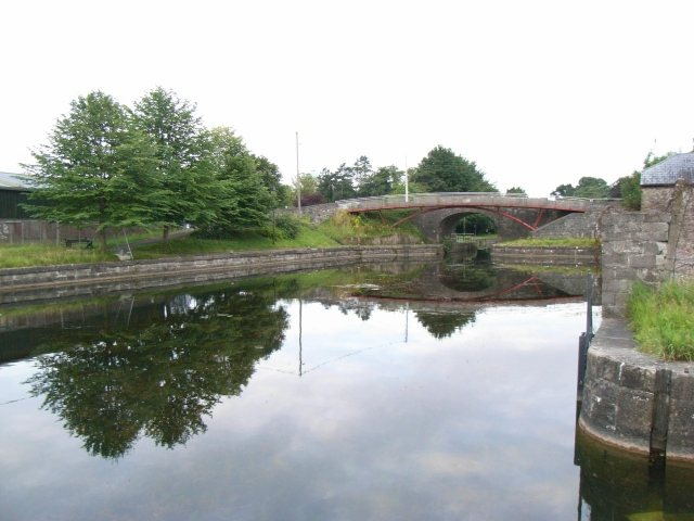 Royal Canal Harbour in Mullingar, Co. Westmeath